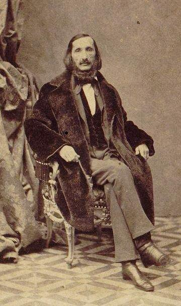 Picture of Heinrich Wilhelm Ernst